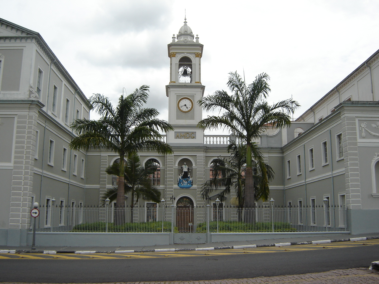 Brazilian Army 2nd Field Artillery Group